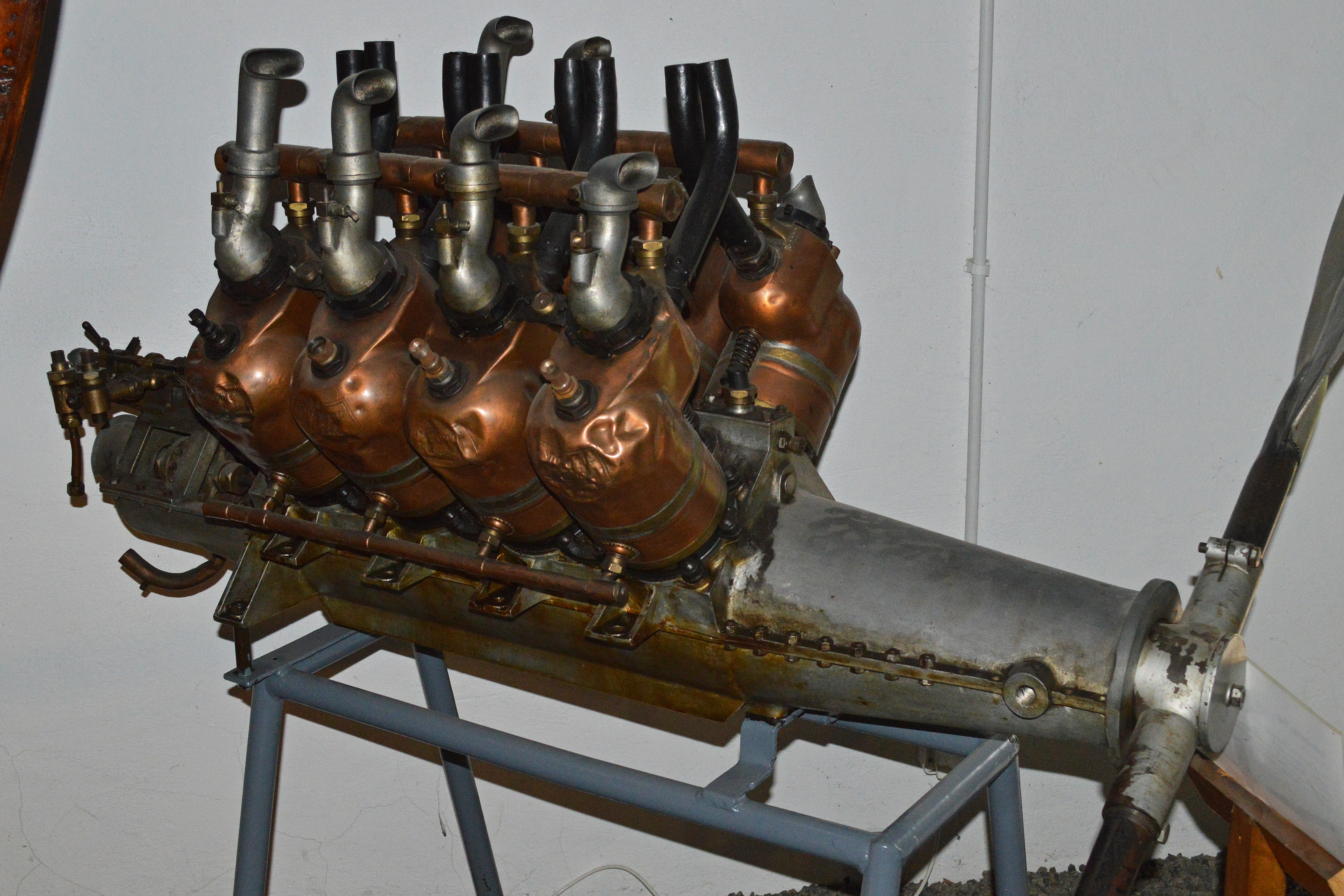 This is the engine from the 1908 Levavasseur Antoinette monoplane, which delivered 60hp. The engine and aeroplane were both designed by Leon Levavasseur. Every cylinder has a separate injection carburettor. The cooling system uses water evaporation in the cylinder jackets. Due to the complexity of the fuel supply and cooling installations, the engine did not gain popularity. It is on display next to a Levavasseur Antionette fuselage, in a building full of unrestored relics at the Muzeum Lotnictwa Polskiego. Krakow, Poland. 23-8-2013.